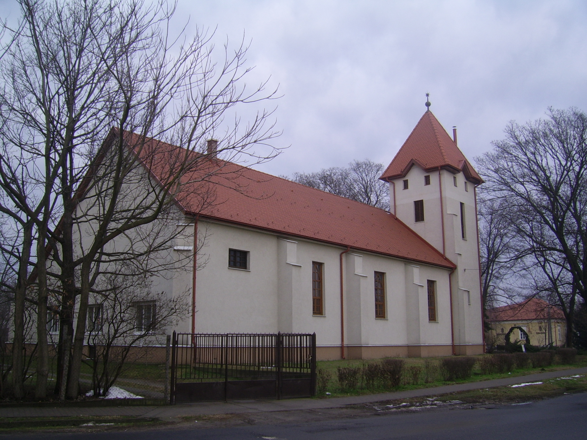 Reformed church of Örkény